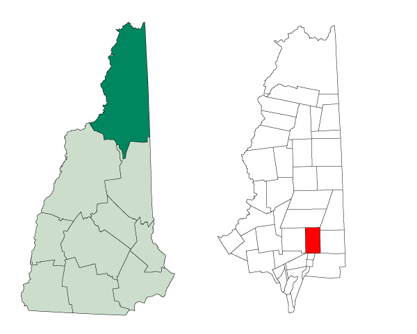 Map of a municipality in Coos County, New Hampshire